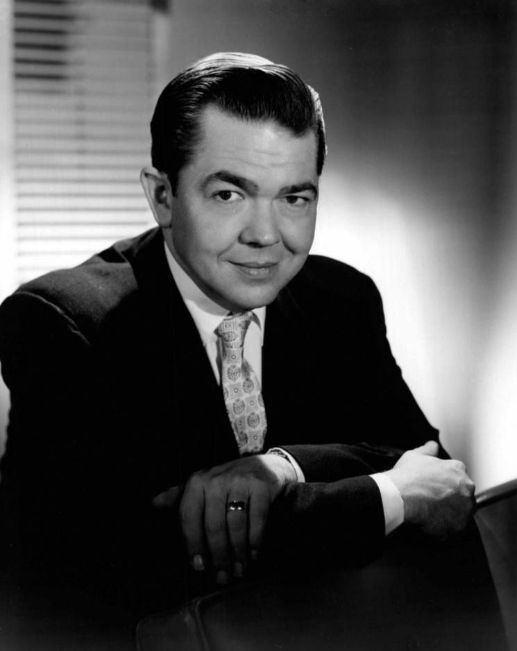 Photo of actor Marvin Miller.